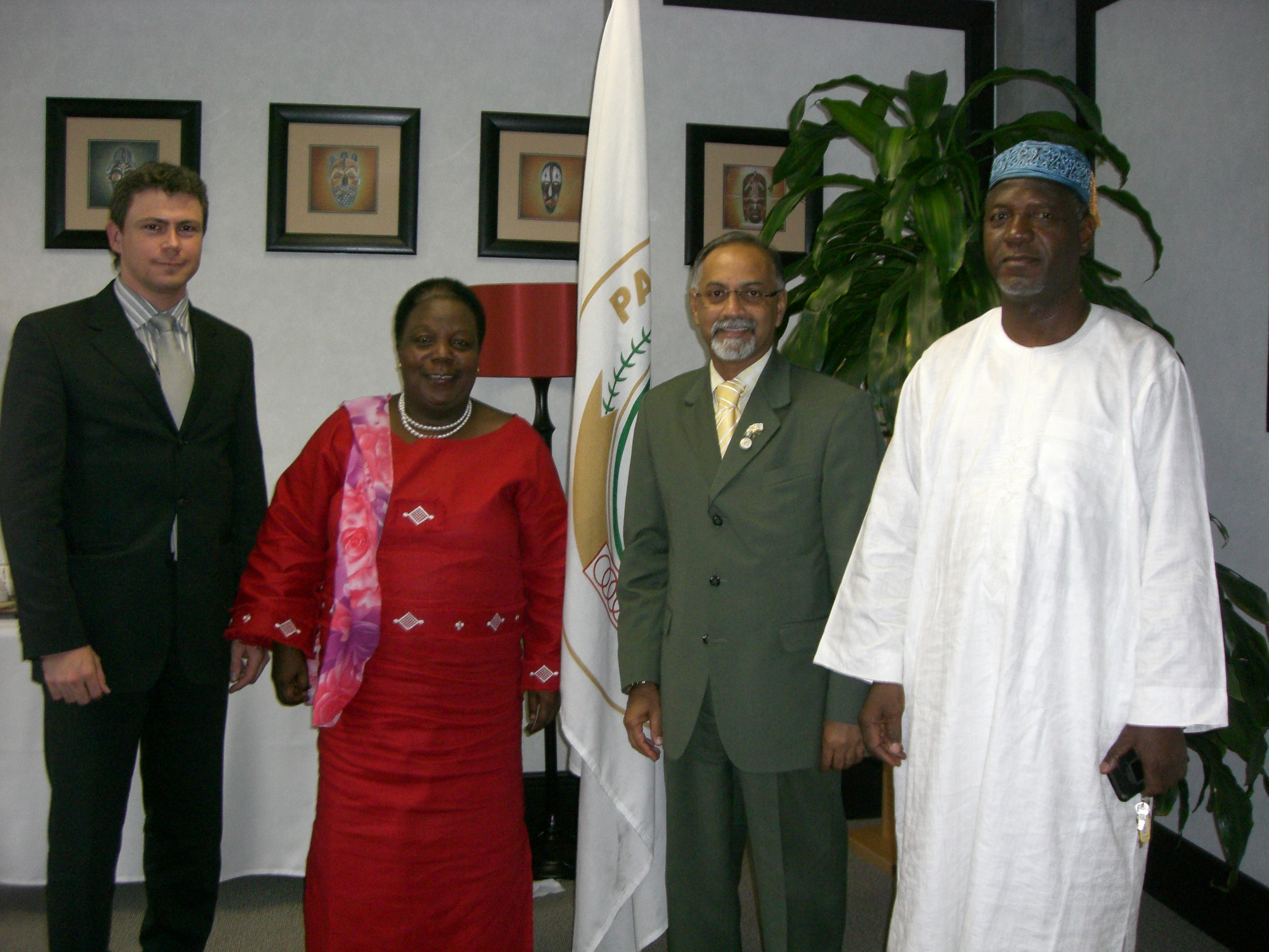 Hon. Alhaj Malik Al-Hassan Yakubu, Fourth Vice-President of the Pan-African Parliament, Hon. Mokshanand Dowarkasing, PAP President Dr. Gertrude Mongella and UNPA-Campaign representative Andreas Bummel after a meeting